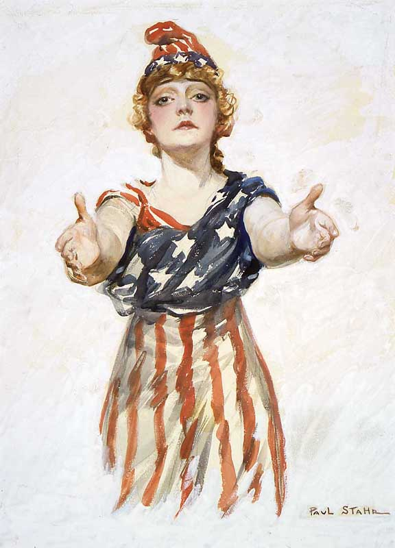 Columbia reaching out to viewer. Original design for the "Be Patriotic" poster by Paul Stahr, ca. 1917-18; Gouache on paper, original is 27 7/8 " x 20".